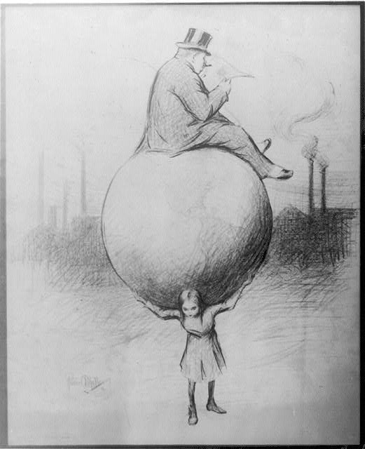 Cartoon from the records of the National Child Labor Committee (U.S.). During the Progressive Era many organizations were formed to outlaw the child labor that was a feature of Gilded Age industrial revolution, which included teenage girls working long hours in mills. The cartoon shows a child laborer supporting the world with her labor, including an uncaring robber baron industrialist.